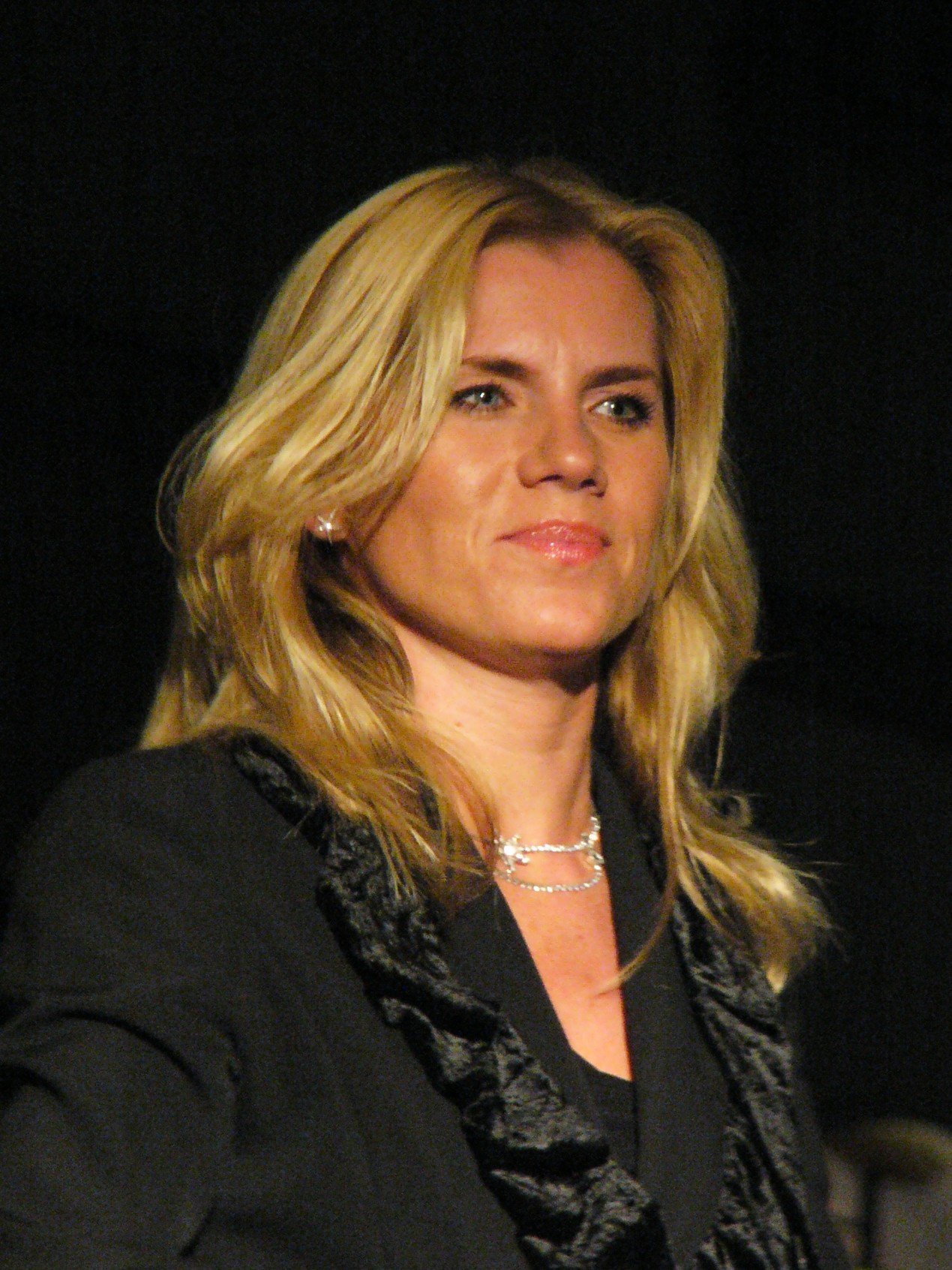 Czech singer Leona Machálková in the concert in Olomouc (The Czech Republic).